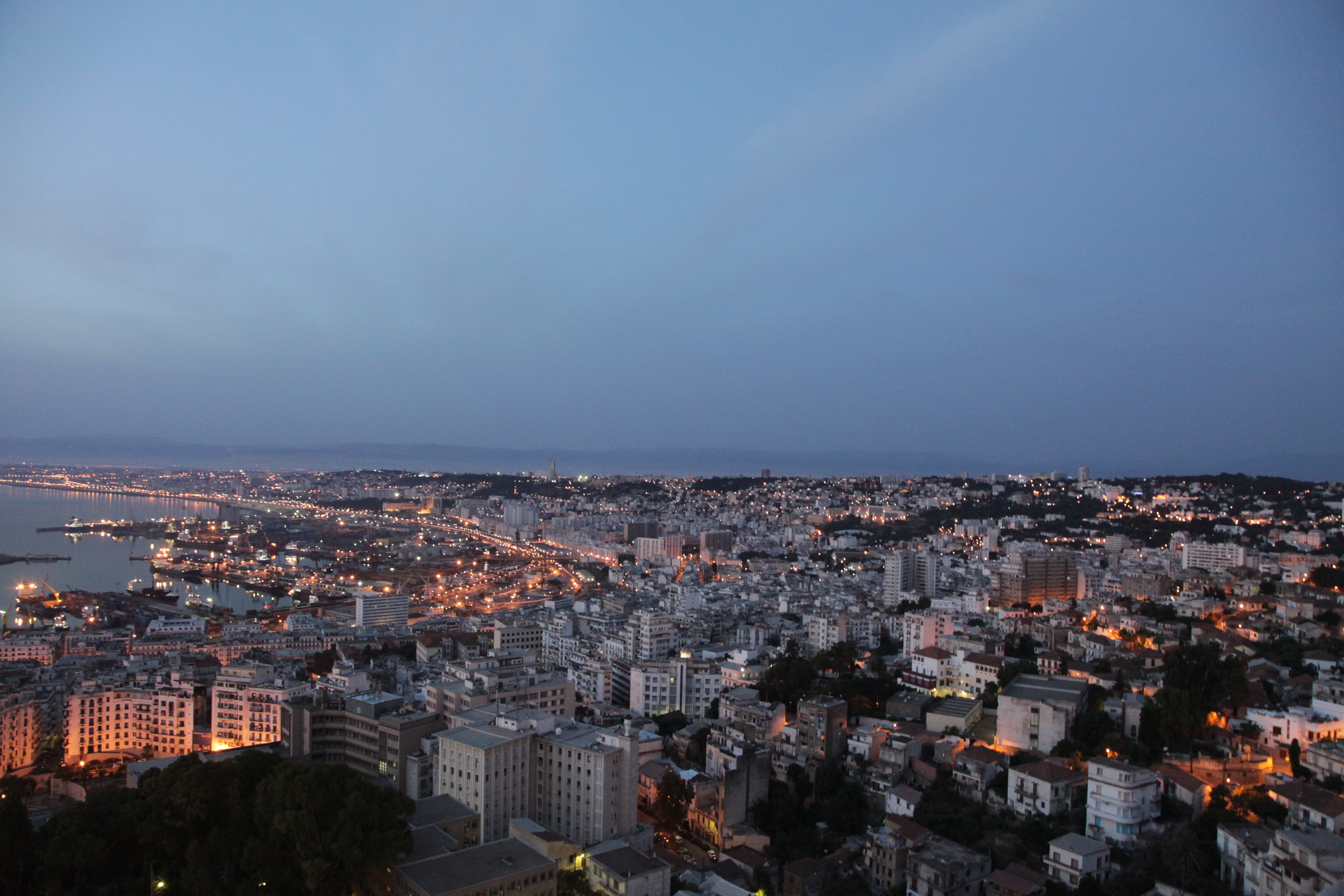 From Hotel Aurassi